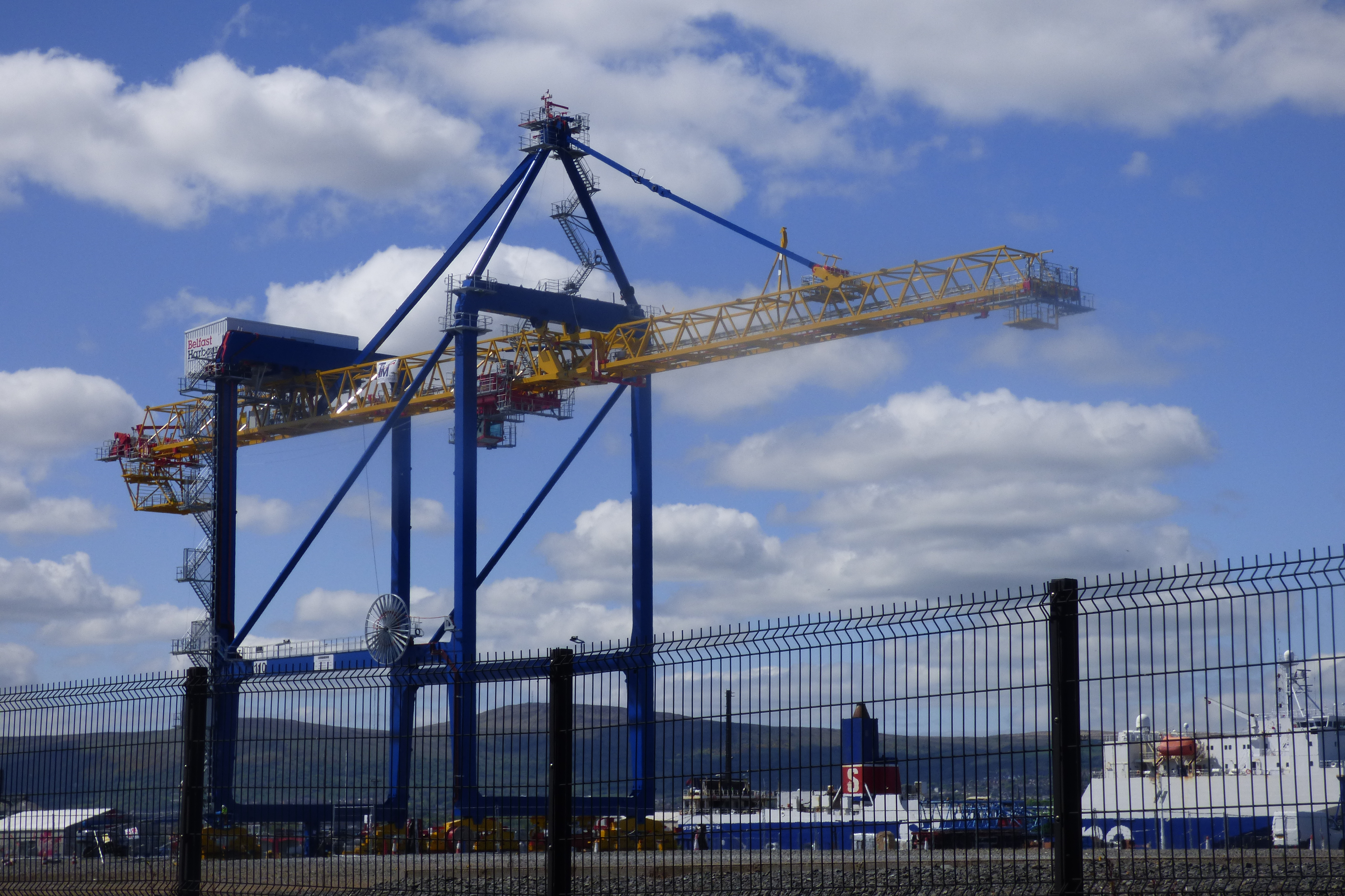 The first of Belfast port's new Liebherr gantry container handling cranes assembled, awaiting transfer across the channel to VT3. Stena ferries in the background.